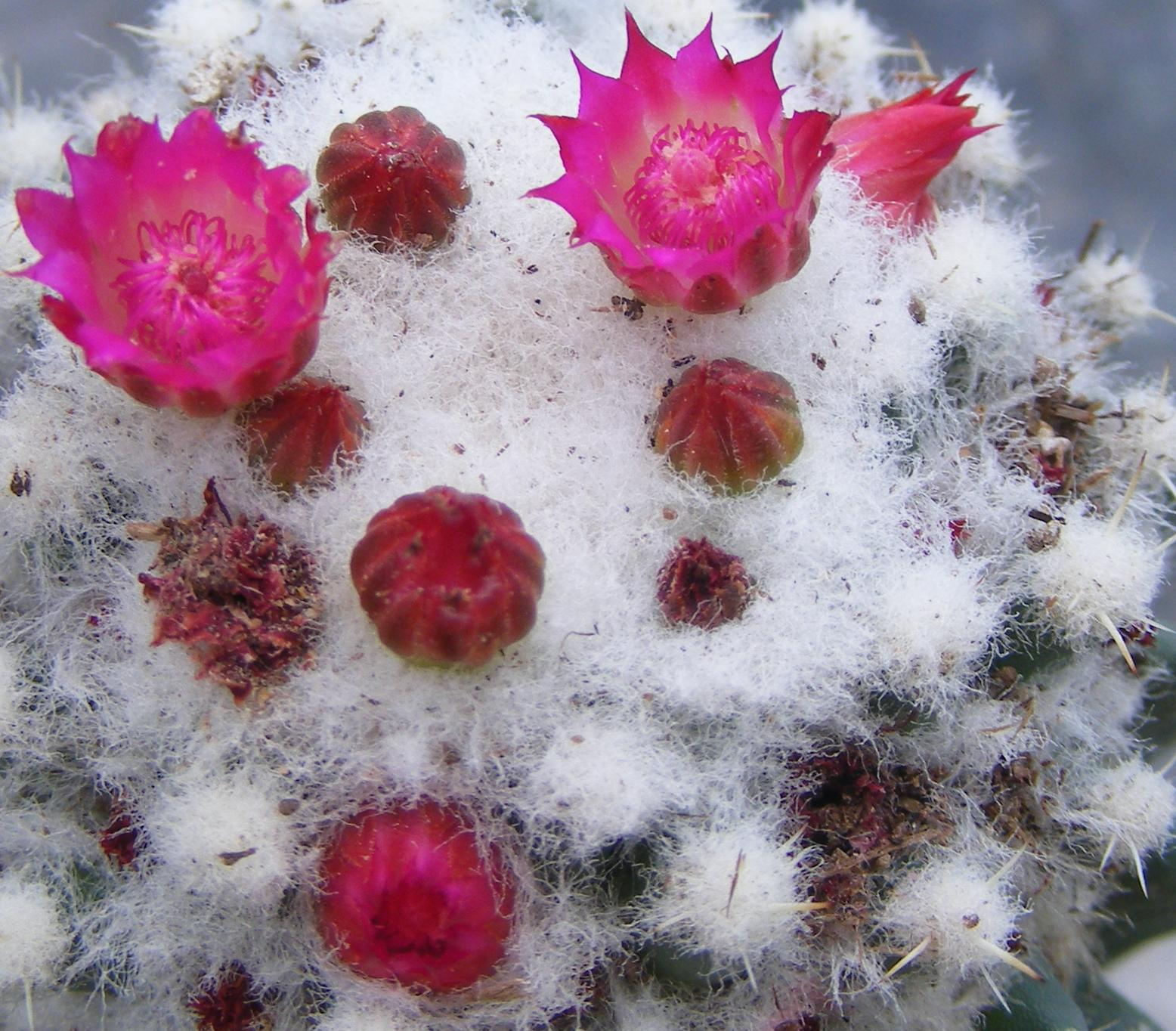 Mammillaria polythele var inermis